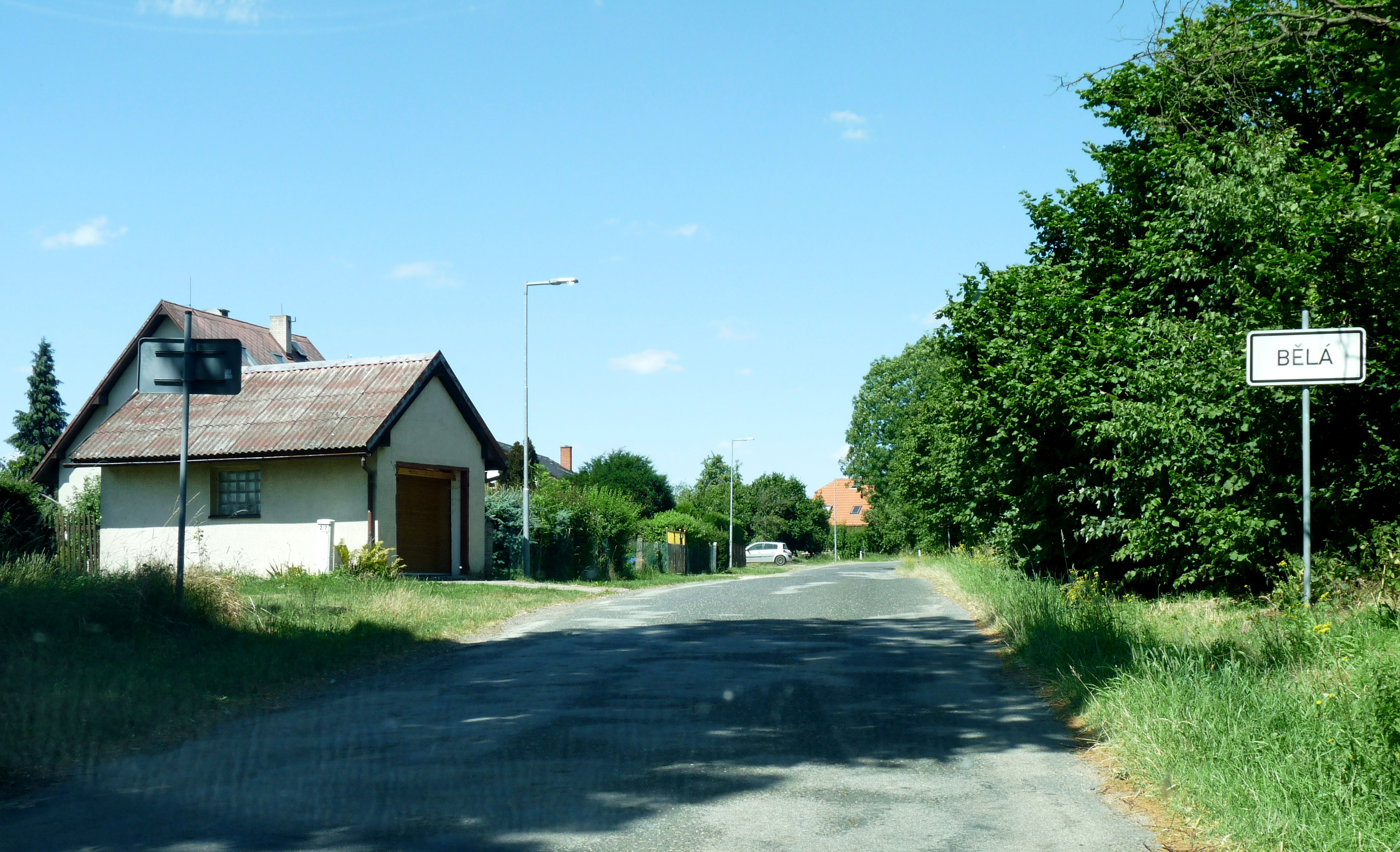 Municipal border sign in the village of Bělá, Havlíčkův Brod District, Vysočina Region, Czech Republic.